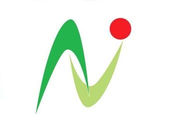 Flag of Nakagawa Tochigi